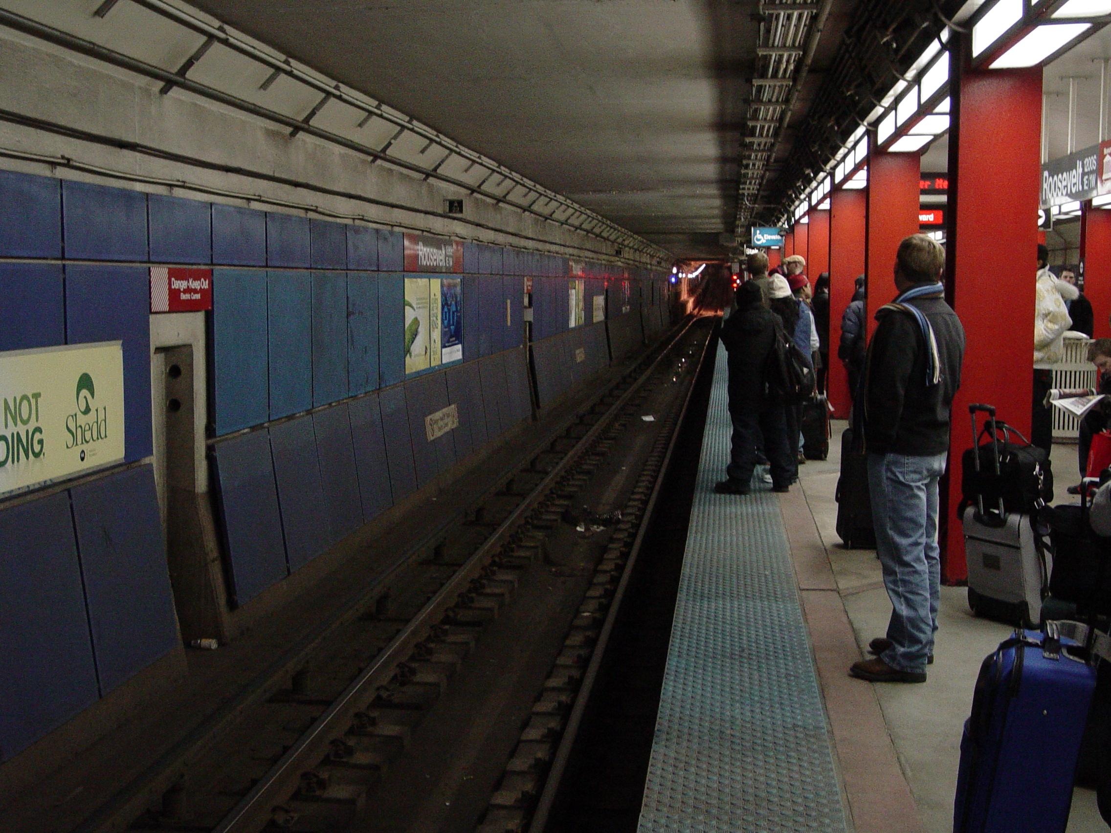 Roosevelt station in Chicago, Illinois